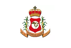 Flags of the city of Engenheiro Navarro, Minas Gerais, Brazil.